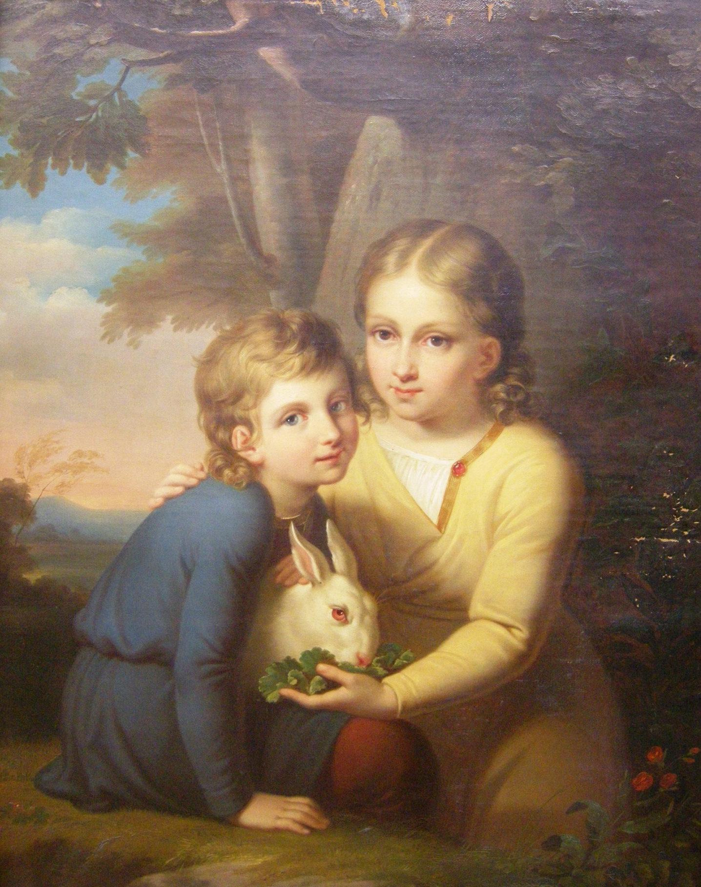 Princes Ernest and Albert of Saxe-Coburg and Gotha